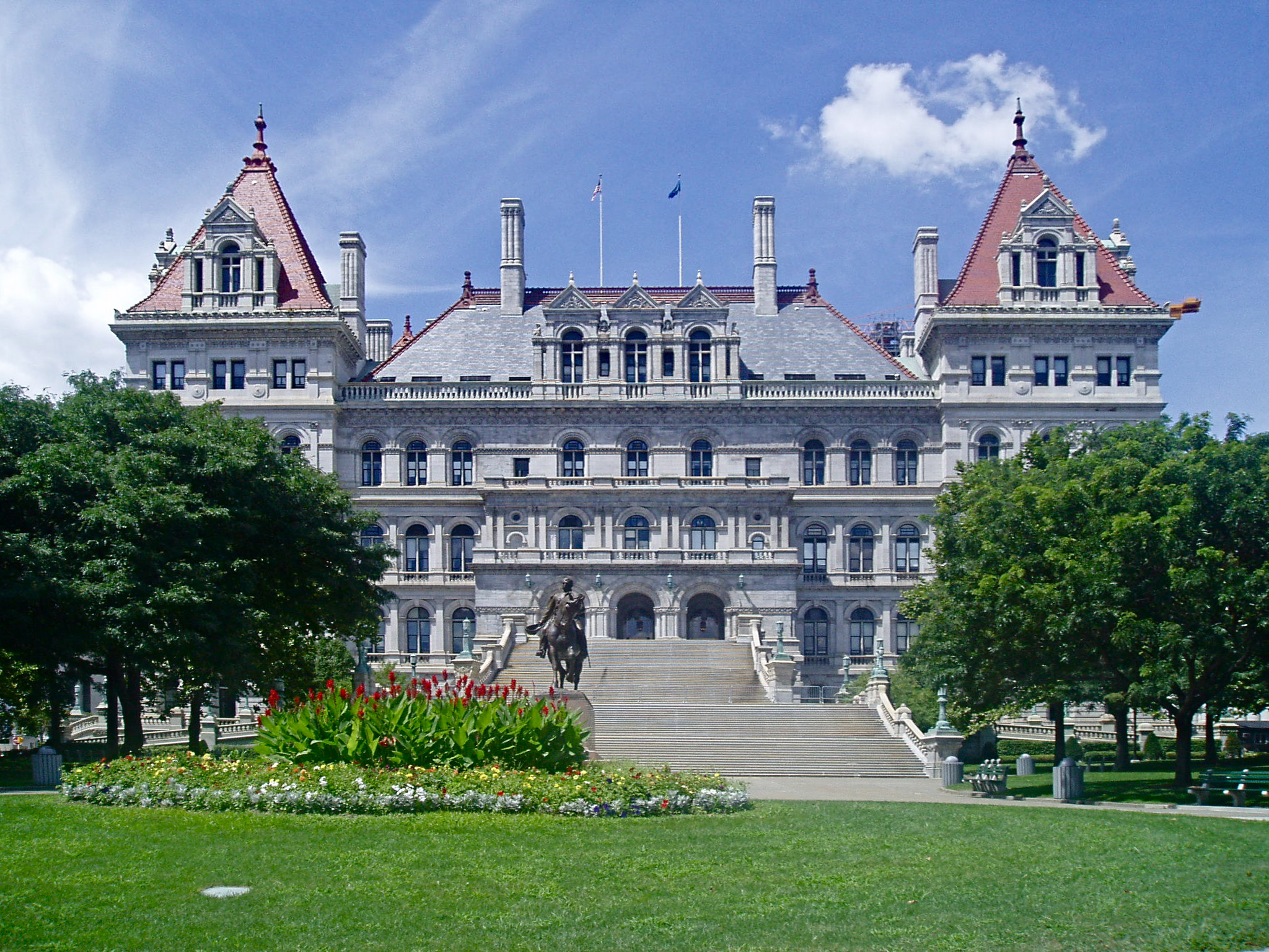 New York State Capitol, located in Albany, New York, United States